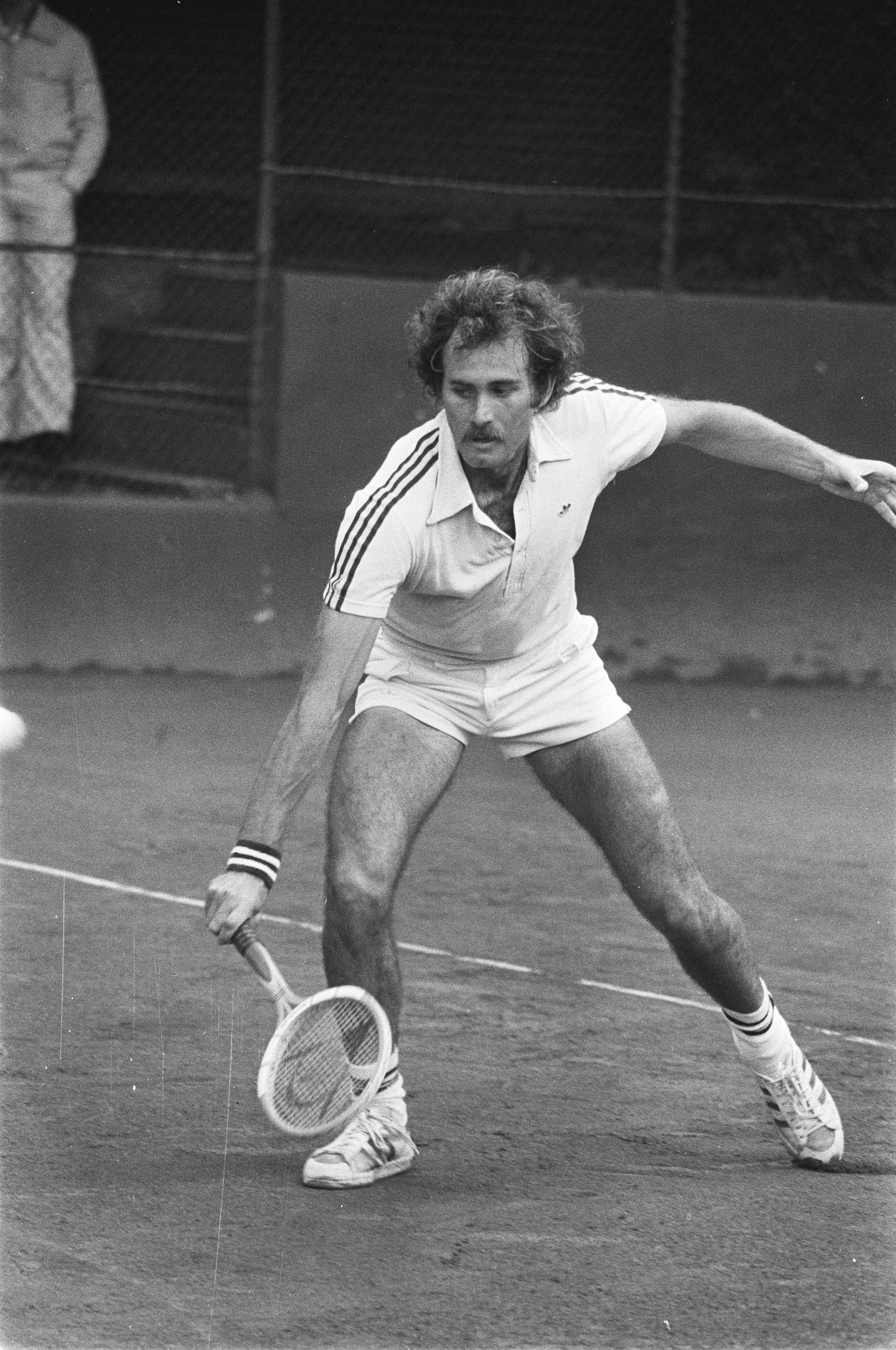 Chilean tennis player Álvaro Fillol at the 1978 Dutch Open in Hilversum.